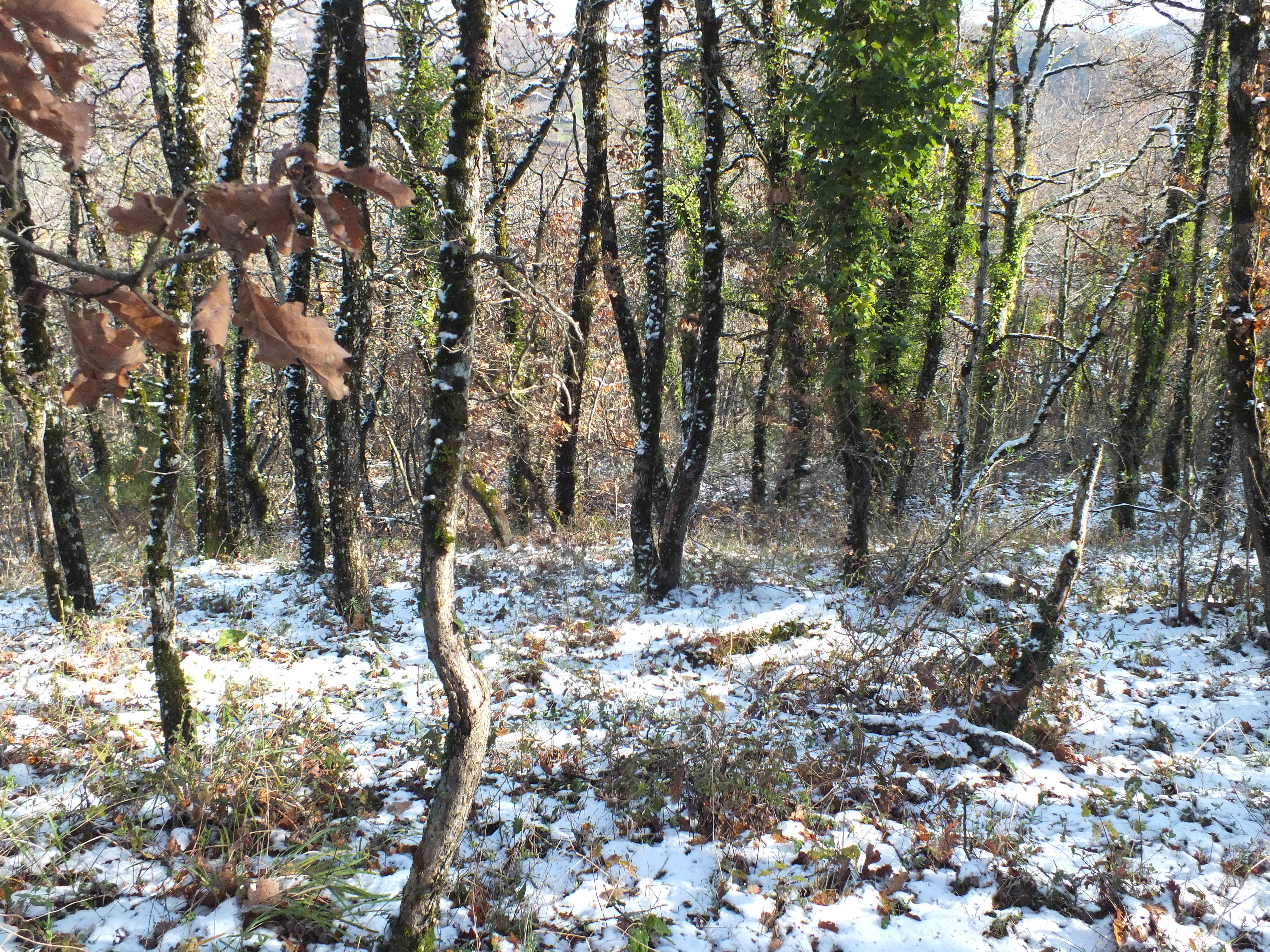 Le Truel on the Tarn Riverin Aveyron. Vista seen from the slopes of Costecalde alt 727m. Oak and Sweet Chestnut woodland at Ayssènes.